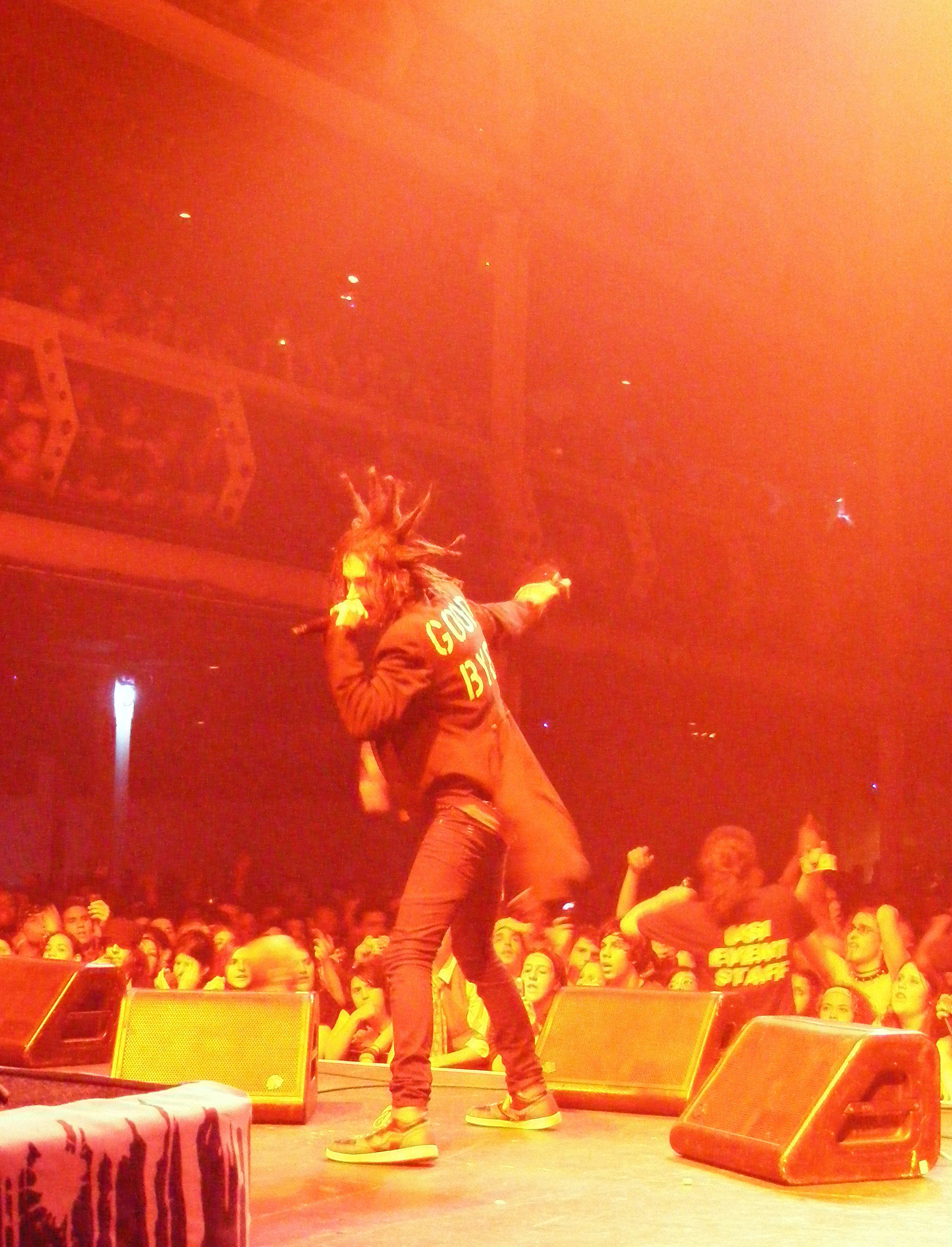 Jimmy Urine on stage.